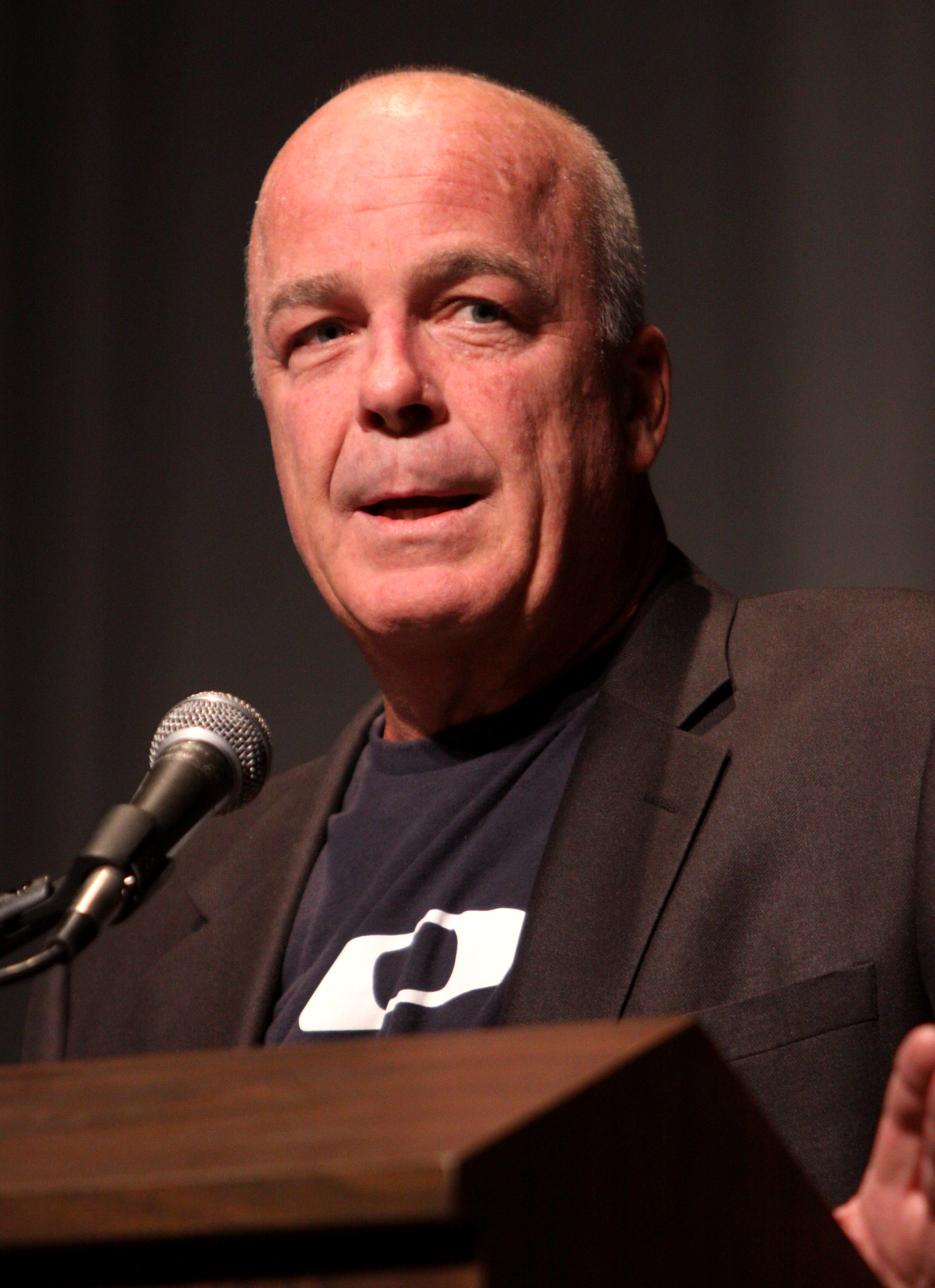 Jerry Doyle at a political conference in Reno, Nevada.